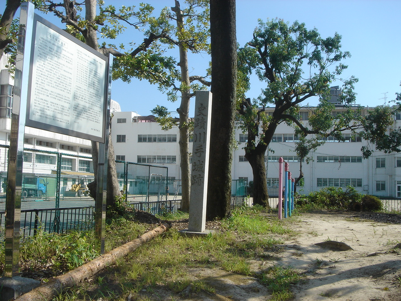 Monument of Kawate Castle(川手城),Gifu,Gifu,Japan(岐阜県岐阜市)で撮影。済美高校の校庭の一角にある。